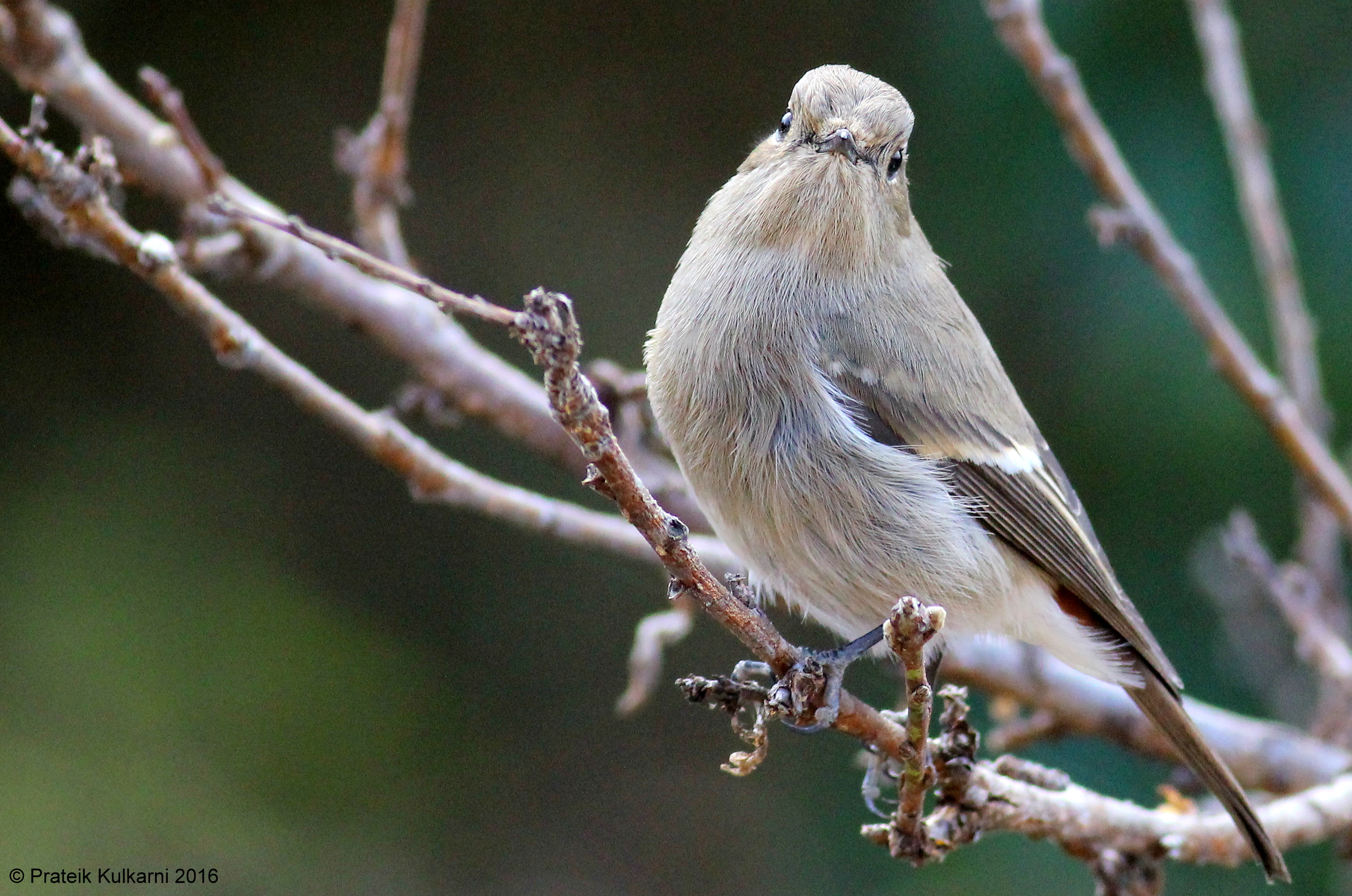 This bird came quite close.